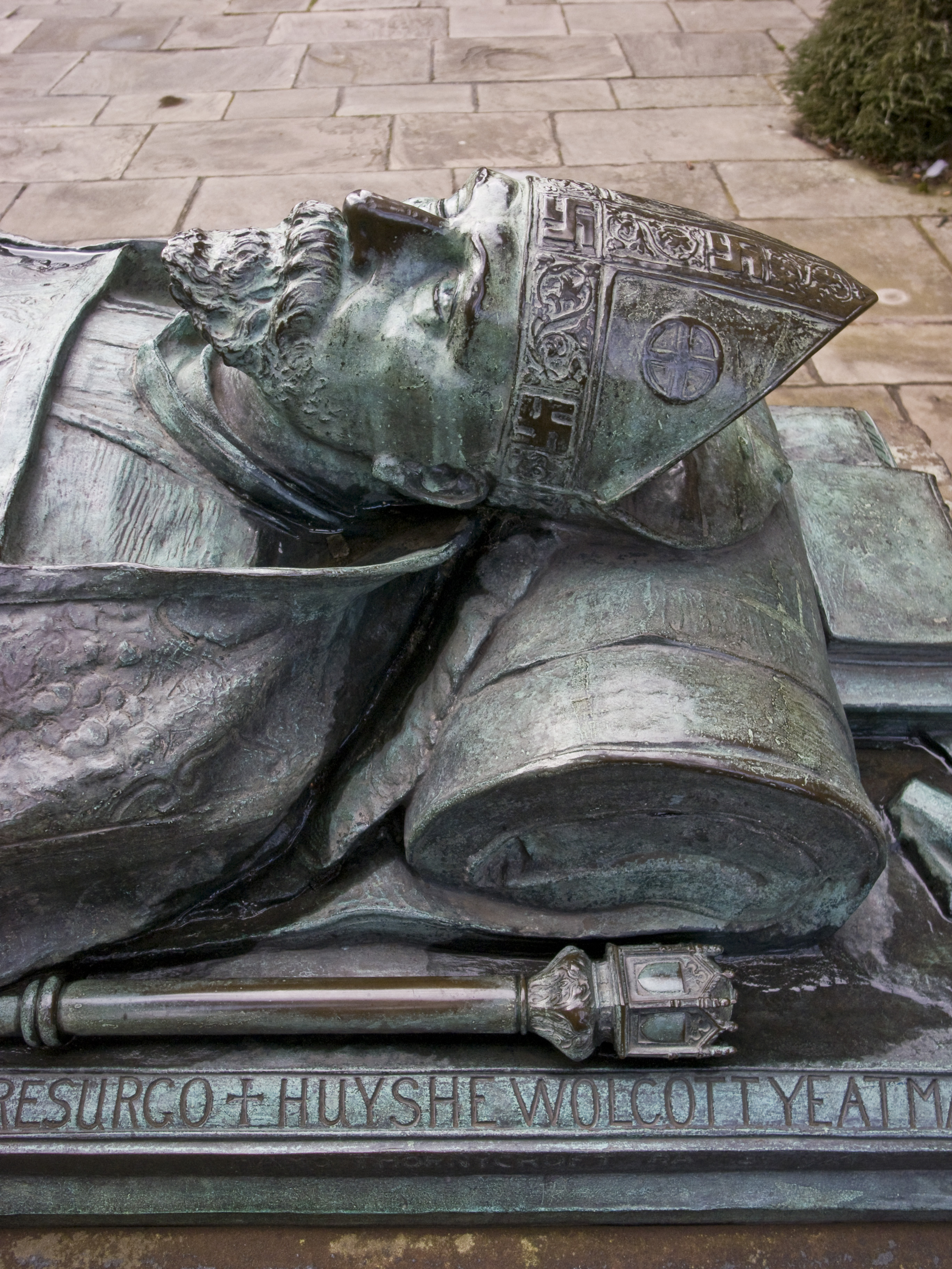 Bronze effigy on the tomb of Bishop Huyshe Wolcott Yeatman-Biggs, first bishop of Coventry Cathedral, England. Sculptor William Hamo Thornycroft, 1924. Restored by E. Roland Bevan, 1951. The tomb survived the destruction of the old cathedral by The Blitz in 1940 and still stands on its original site in the cathedral ruins.